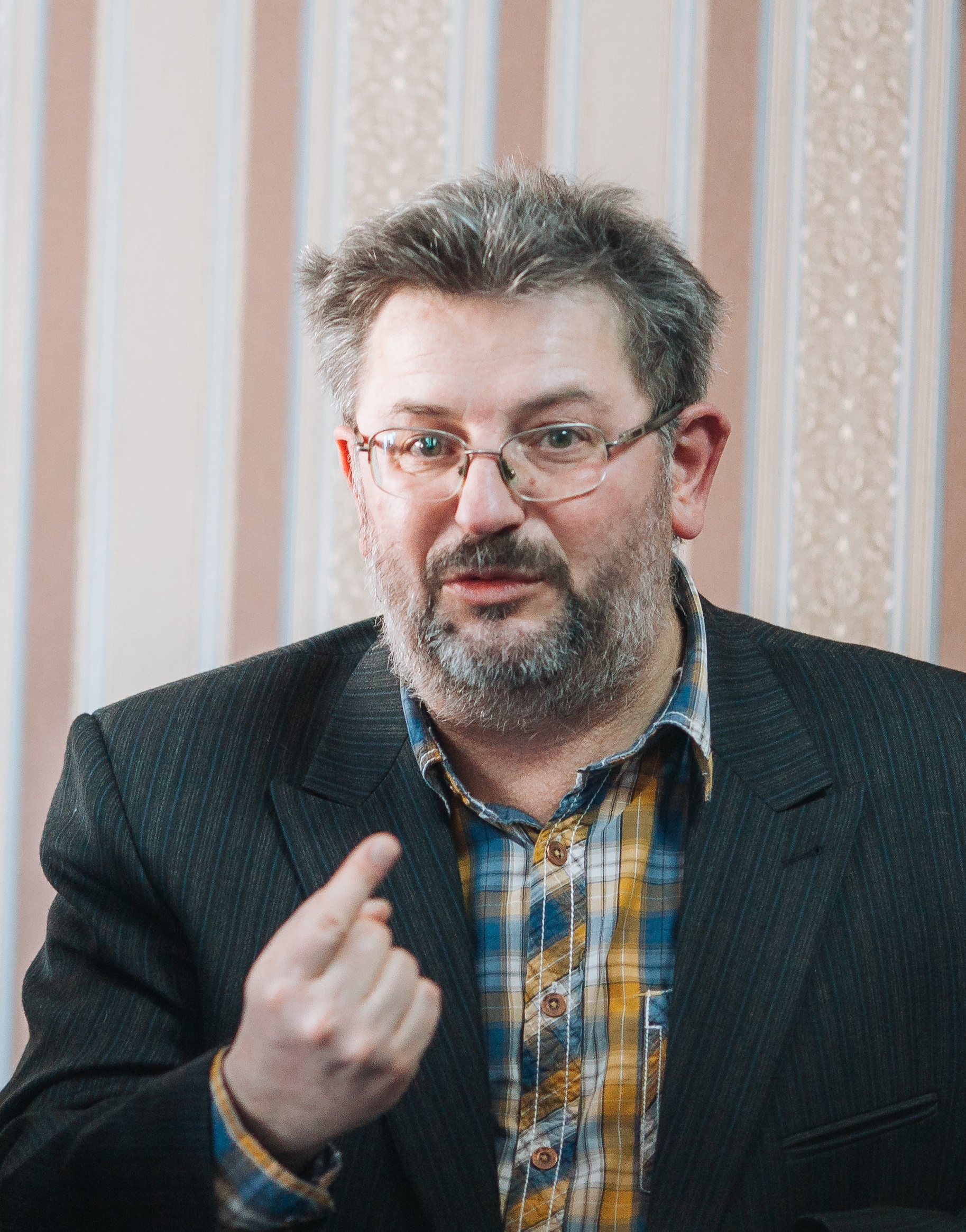 Андрій Квятковський